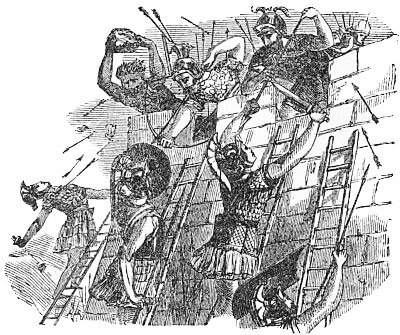 Assault on Lilybaeum. Illustration in Abbott's "History of Pyrrhus", 1901 edition.